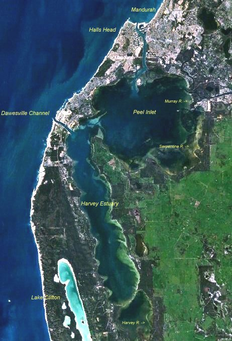 This is a composite satellite image of the Peel-Harvey Estuary, Western Australia from NASA Worldwind by User:Moondyne